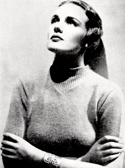 Frances Farmer headshot from Screenland issue, 1937